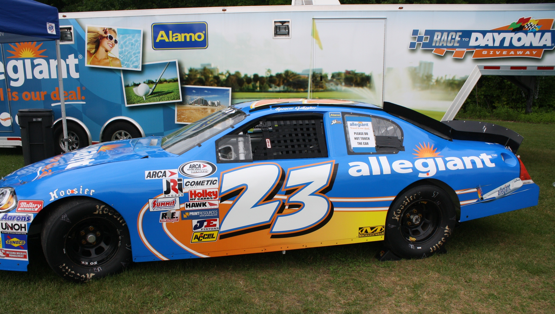 The ARCA Racing Series car of Spencer Gallagher on display at the 2013 Scott 160 race at Road America.